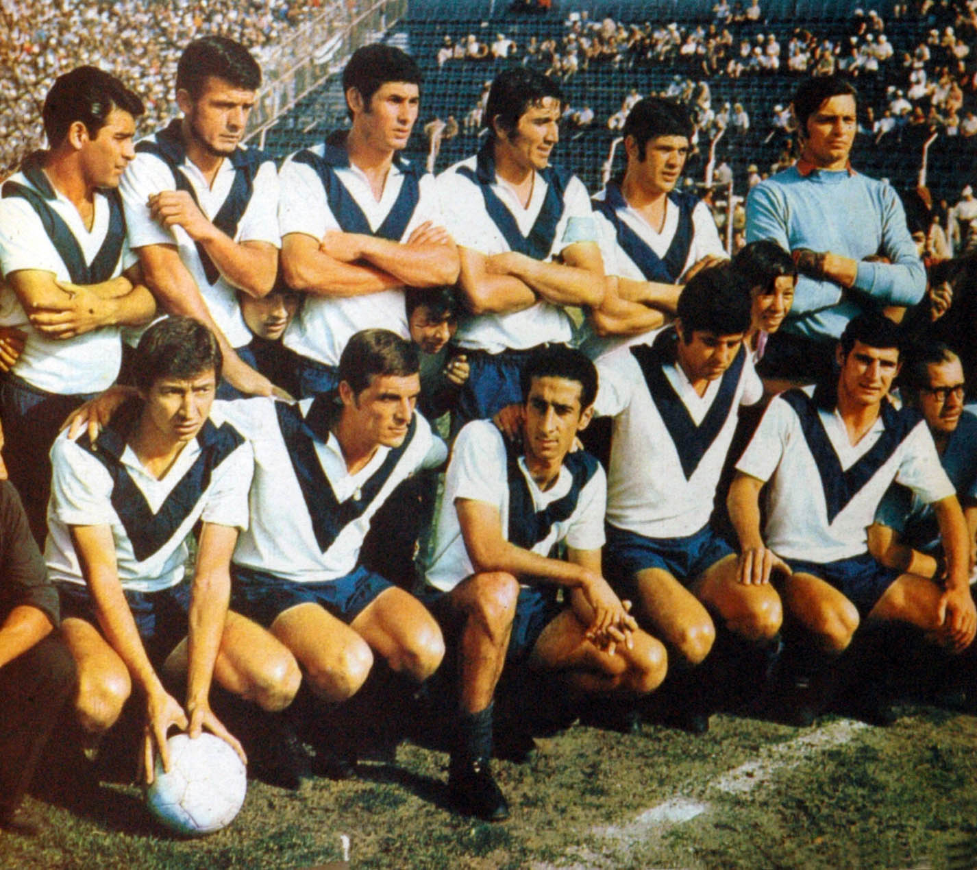 Vélez Sársfield in 1968, which won the first title for the institution.